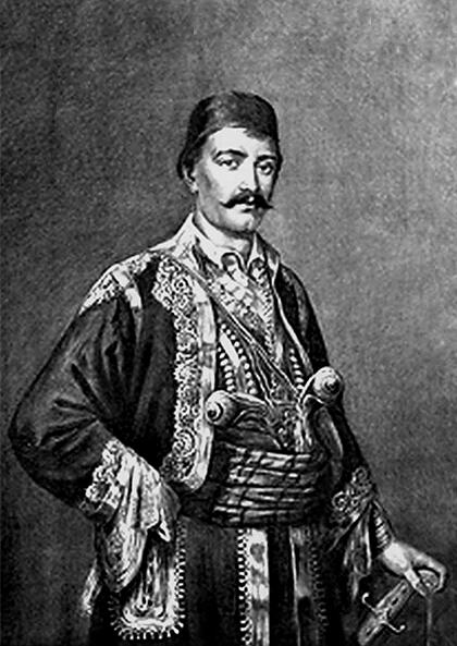 Vojvoda Milan Obrenović (1767 - 1810)